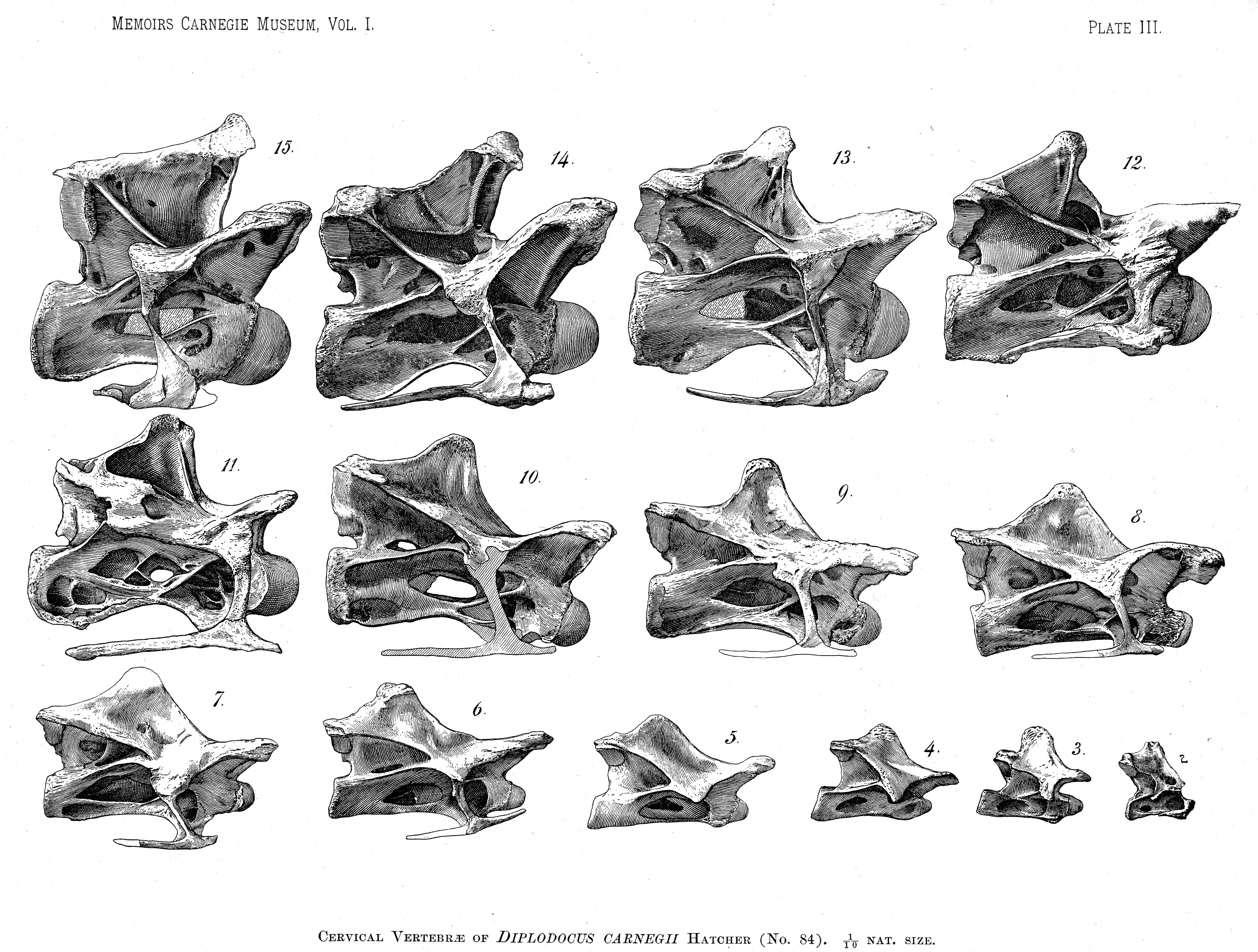 Cervical vertebrae 2–15 of Diplodocus carnegii